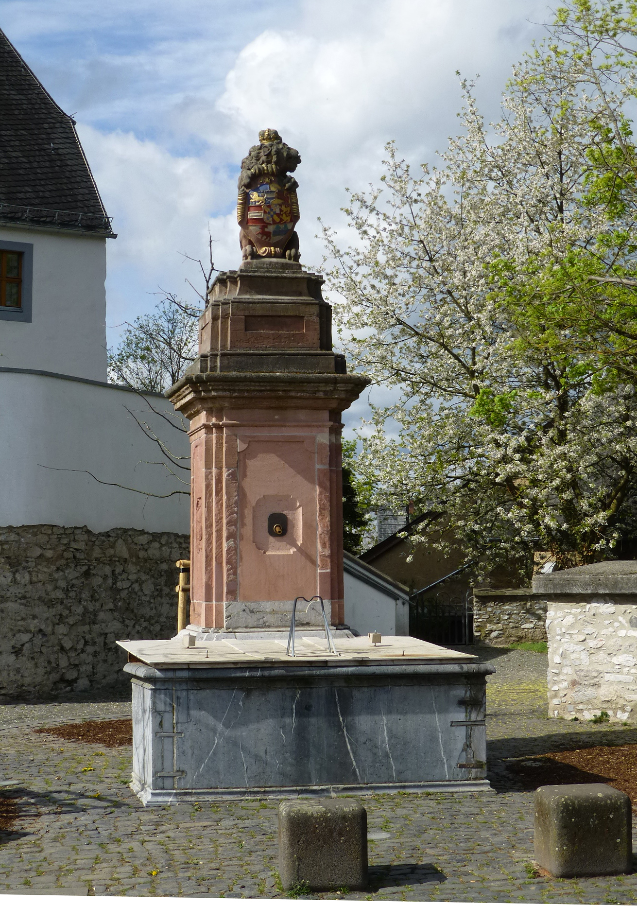 Fountain Friso Brunnen in front of the entry to the old castle of Diez. Coat of arms (1715?).